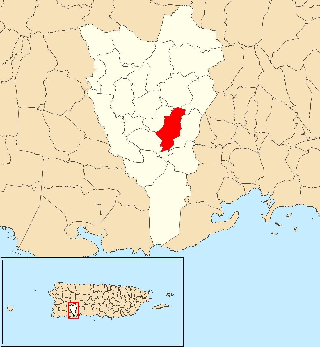 Diego Hernández, Yauco, Puerto Rico locator map